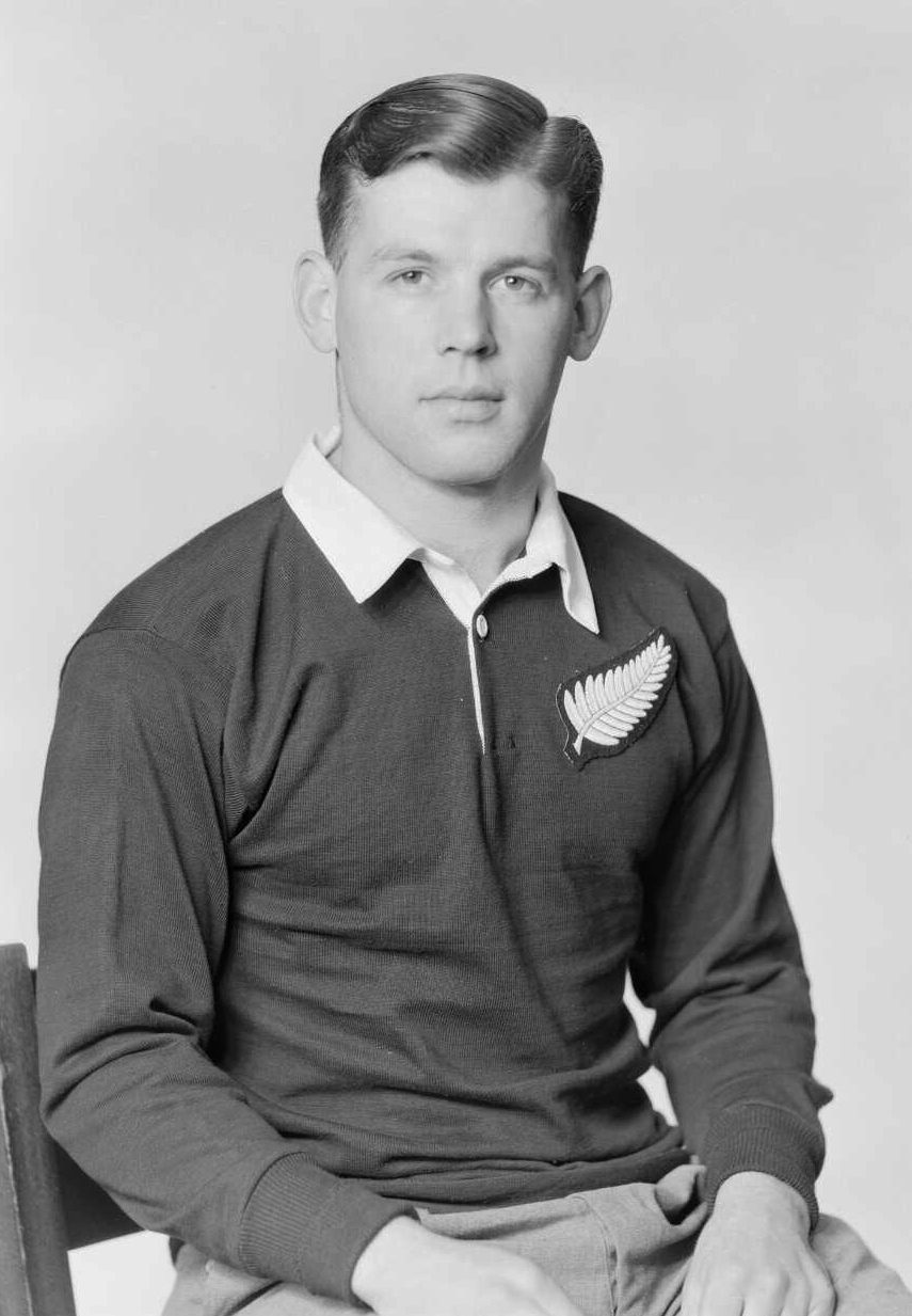 Photograph of rugby player Richard Guy Bowers as a member of the 1953-54 All Black touring team to Great Britain, France and America. Taken ca1953 by Crown Studio Ltd of Wellington.